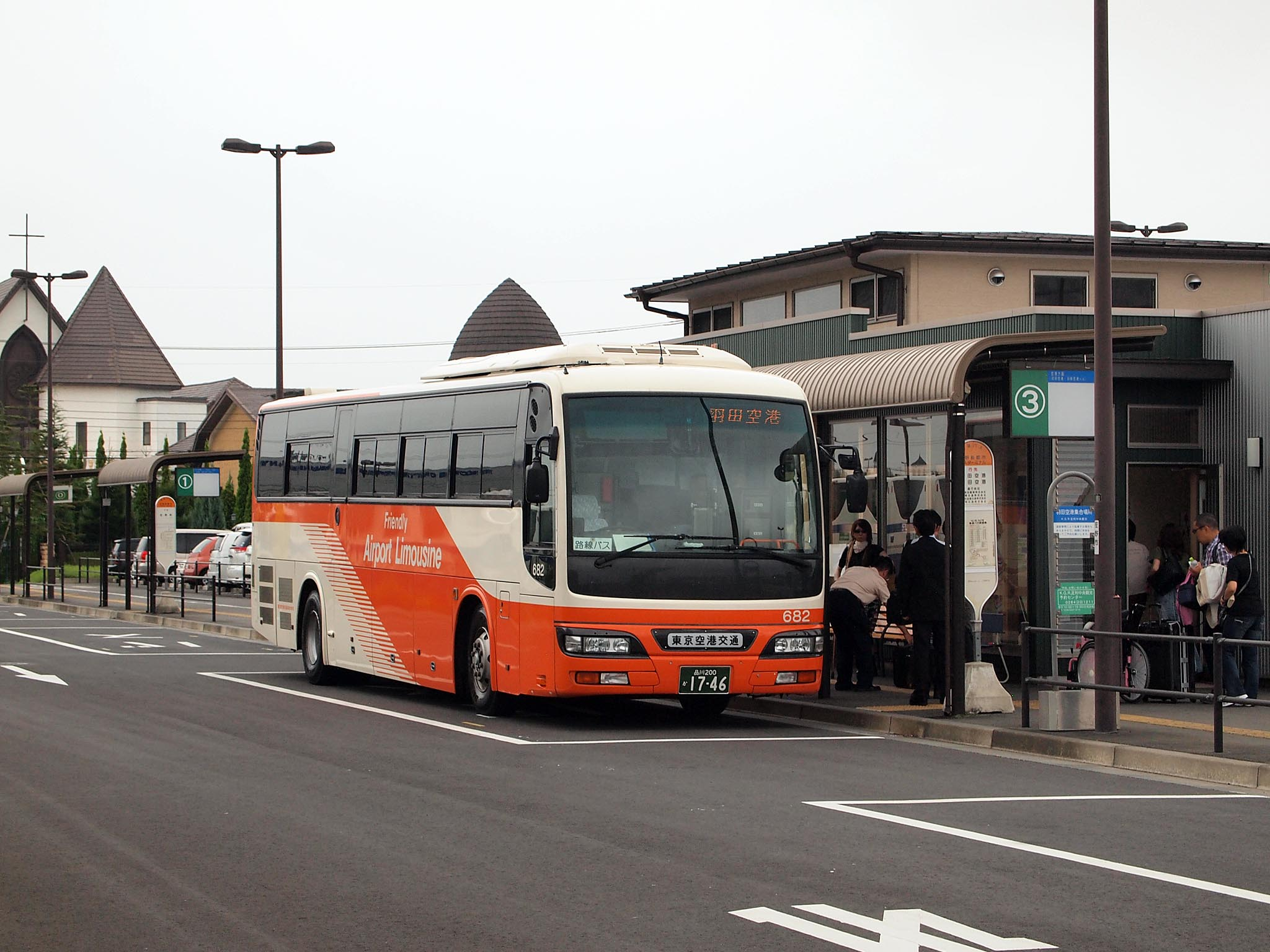 Airport shuttle "Marronnier" Haneda Airport (Tokyo International Airport) Line, stops at Sano Shin-toshi Bus Terminal. Model: Nissan Diesel Space Arrow PKG-RA274RBN License plate: TKS200 KA1746 Operator: Airport Transport Service